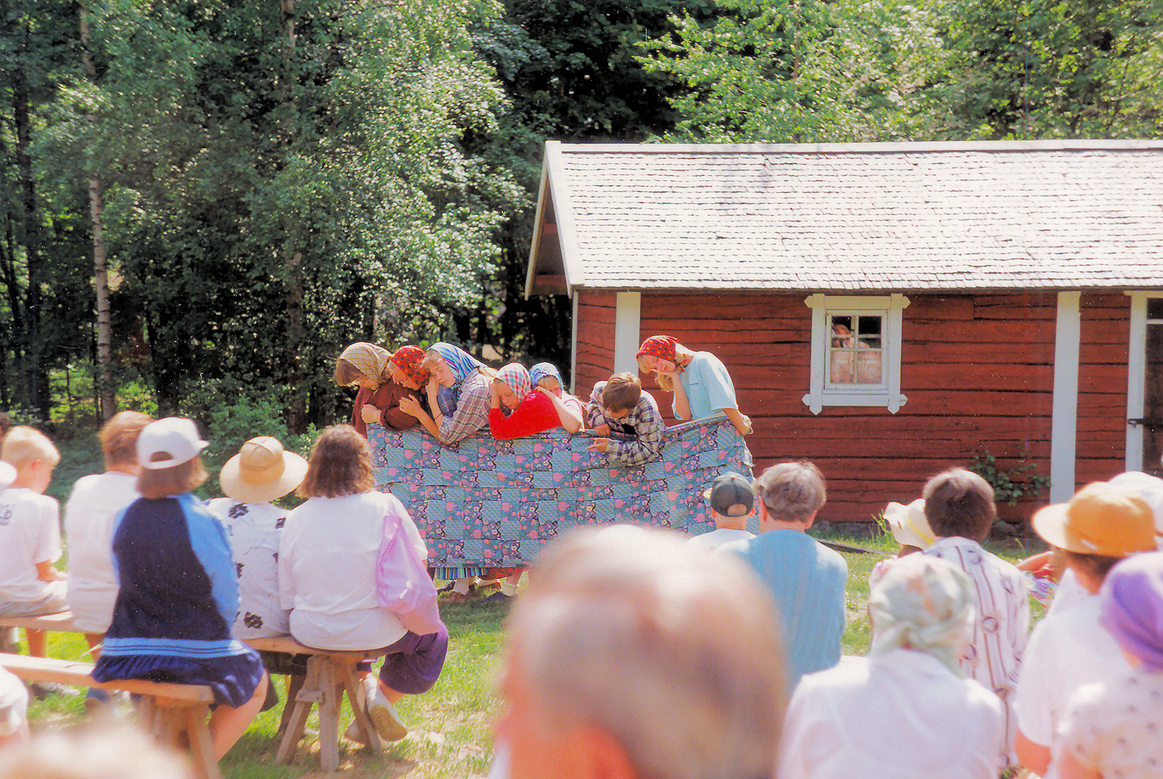 Children's Theatre Vekara Teatteri performing at Kerava Museum on Kerava Day 1992. The play was Hölmöläiset. It is about the village of fools, Hölmölä.